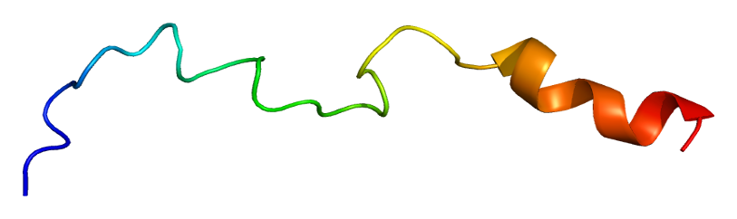 Structure of the APOC2 protein. Based on PyMOL rendering of PDB 1by6.